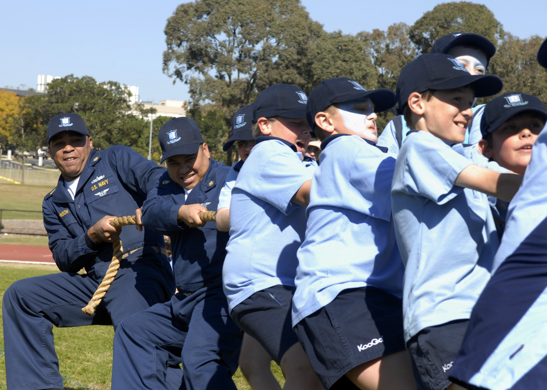 BRISBANE, Australia (July 30, 2009) Senior Chief Ship's Servicemen Shawn Johnson and Chief Aviation Machinist Mate Salvador Reyes, both assigned to the amphibious assault ship USS Essex (LHD 2), participate in a tug-of-war with students from the Brisbane Grammar Middle School. (U.S. Navy photograph by Mass Communication Specialist Seaman Taurean Alexander/Released)